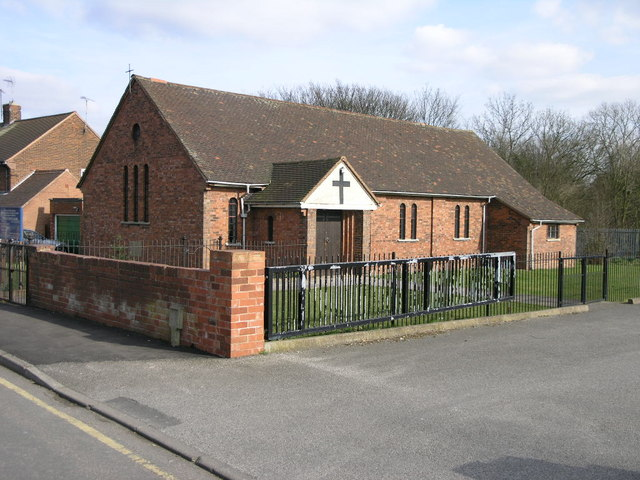 St Luke's parish church, Langold, Nottinghamshire